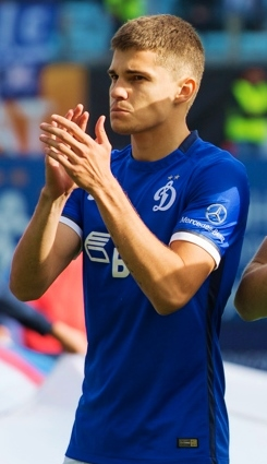 Roman Zobnin